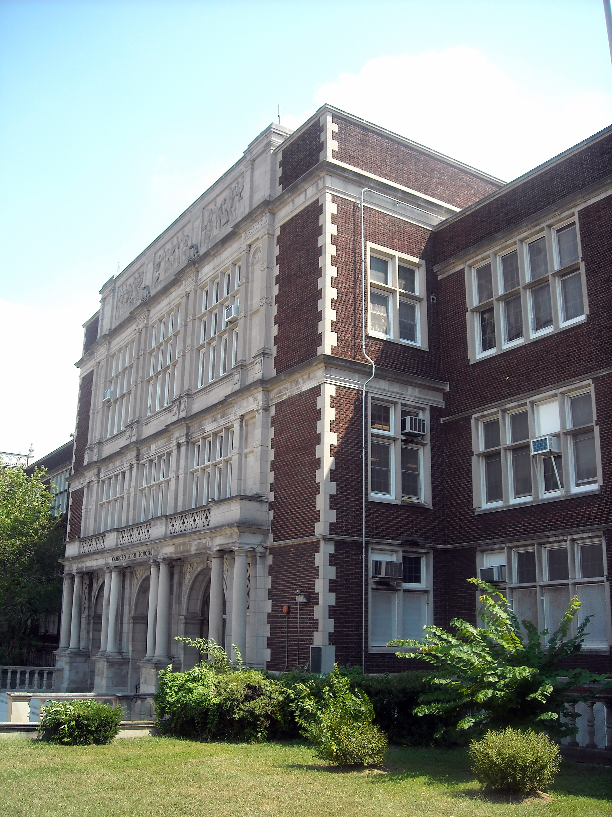 Francis Cardozo High School, also known as Cardozoz Senior High School and Central High School, at 1300 Clifton Street, NW in the Columbia Heights neighborhood of Washington, D.C. The building is listed on the National Register of Historic Places.